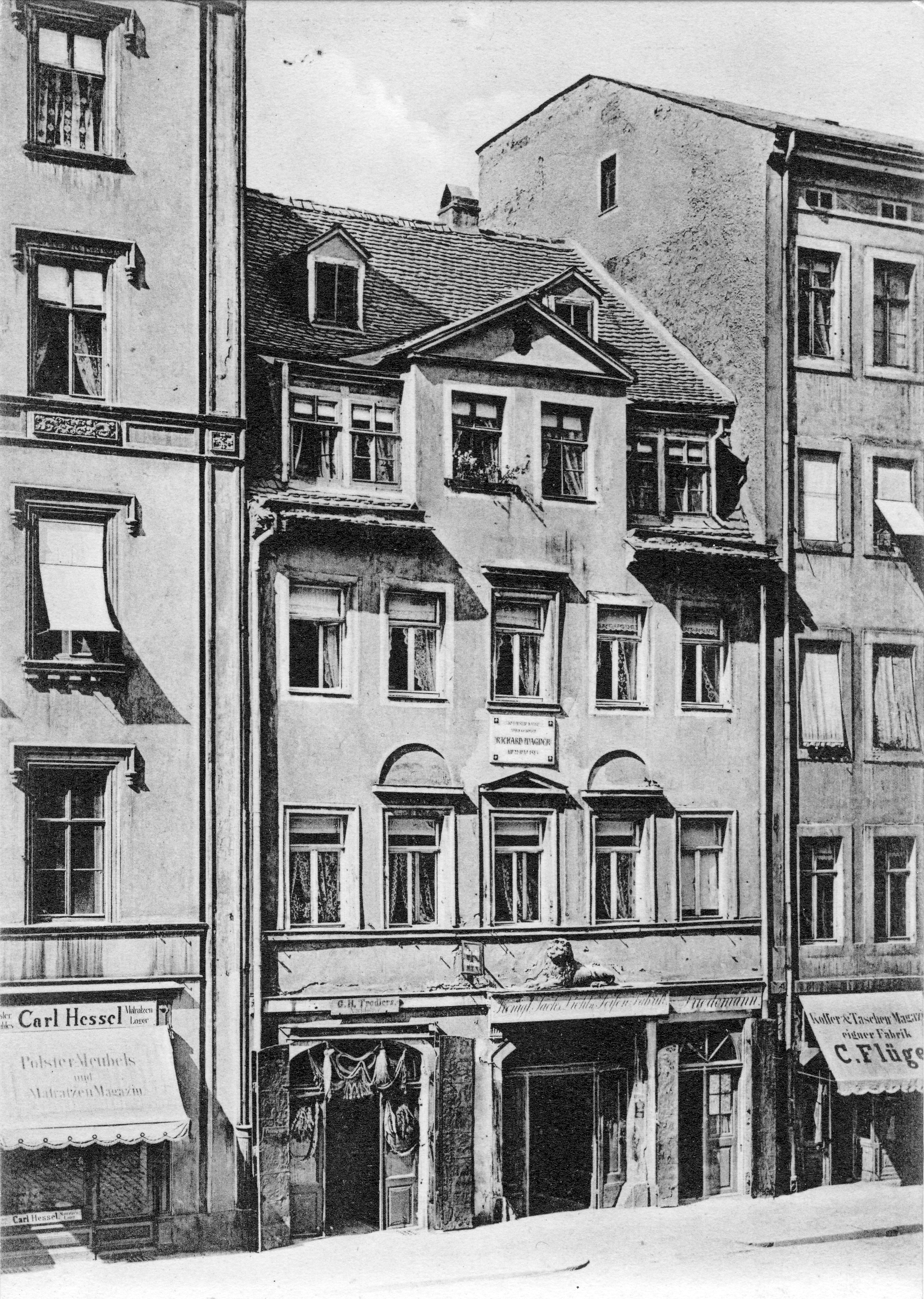 Birth house of Richard Wagner in Leipzig, Bruehl 3, demolished in 1886